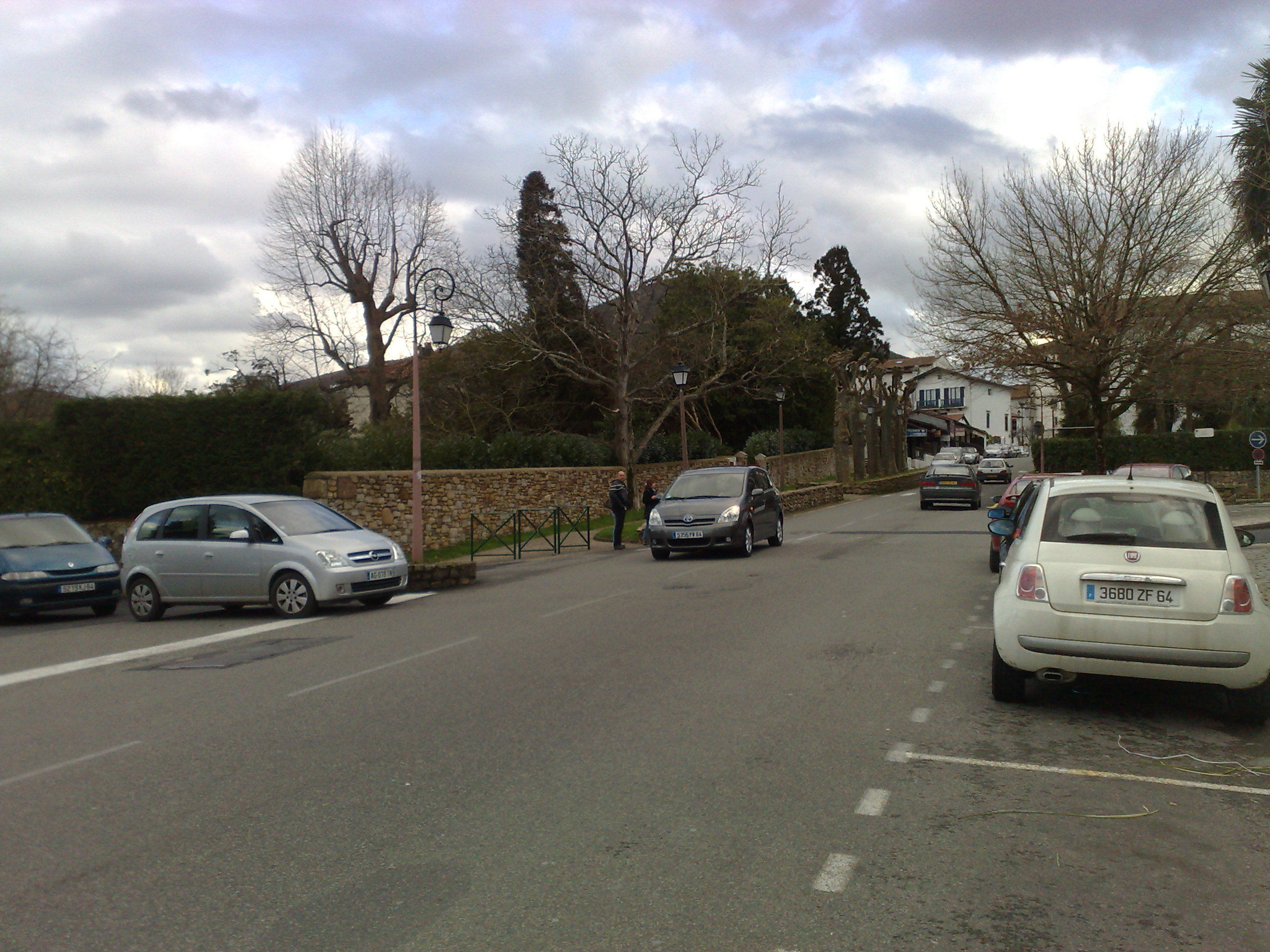 Ernest Fourneau street and Villa Itzala, once house of this chemist, on the left; Azkaine / Ascain, Lapurdi / Labourd, Basque Country.